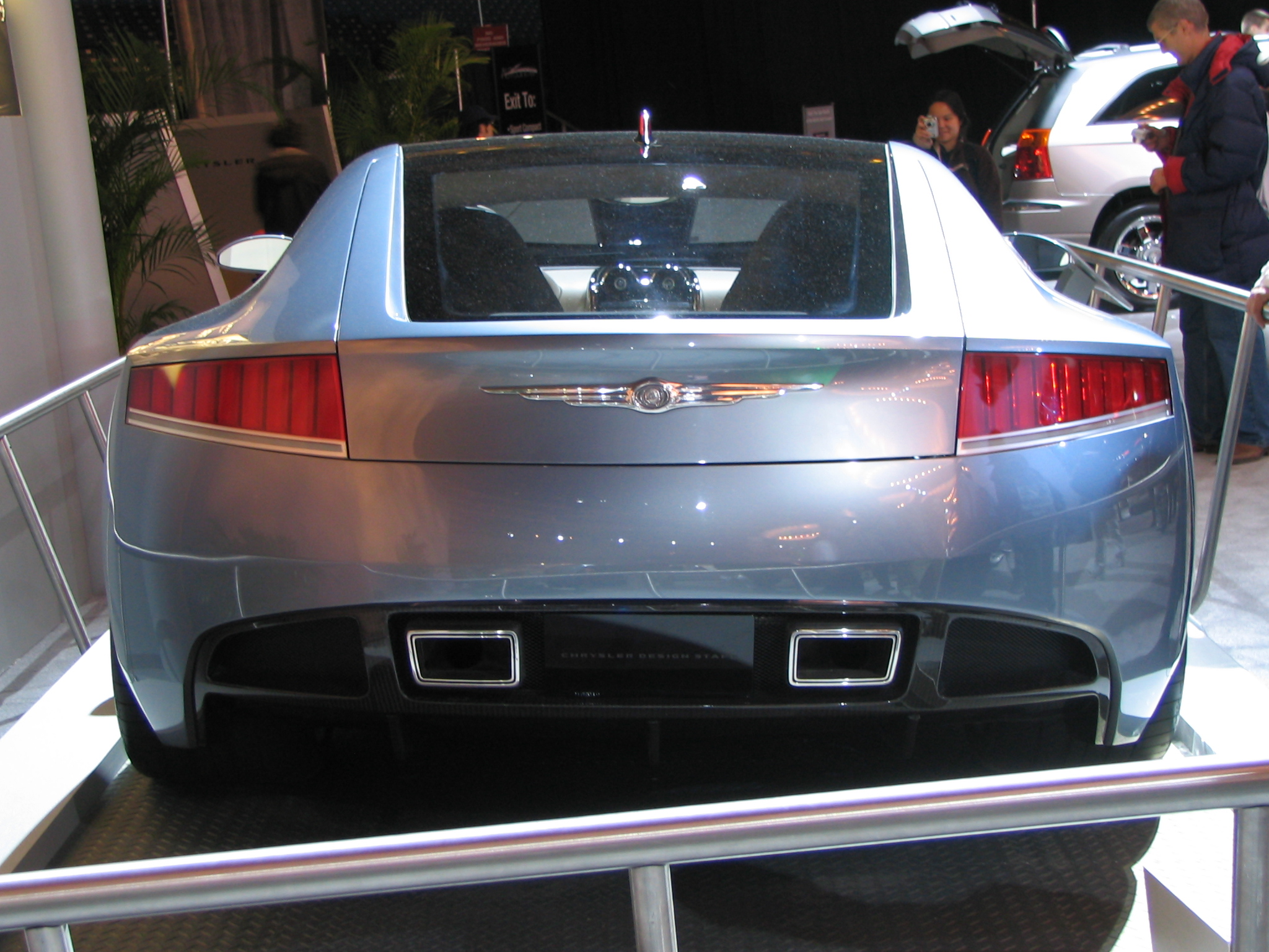 Chrysler Firepower Concept